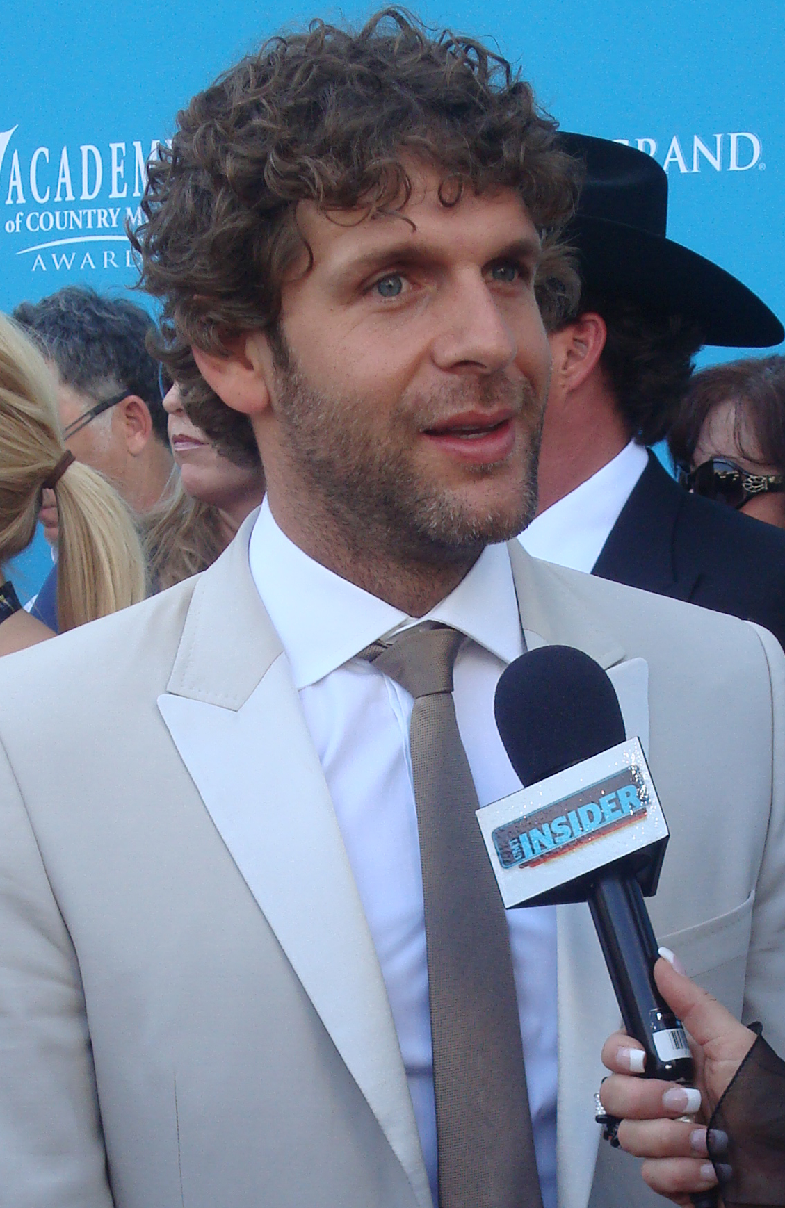 Billy Currington at the 45th Annual Academy of Country Music Awards.